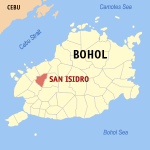 Map of Bohol showing the location of San Isidro